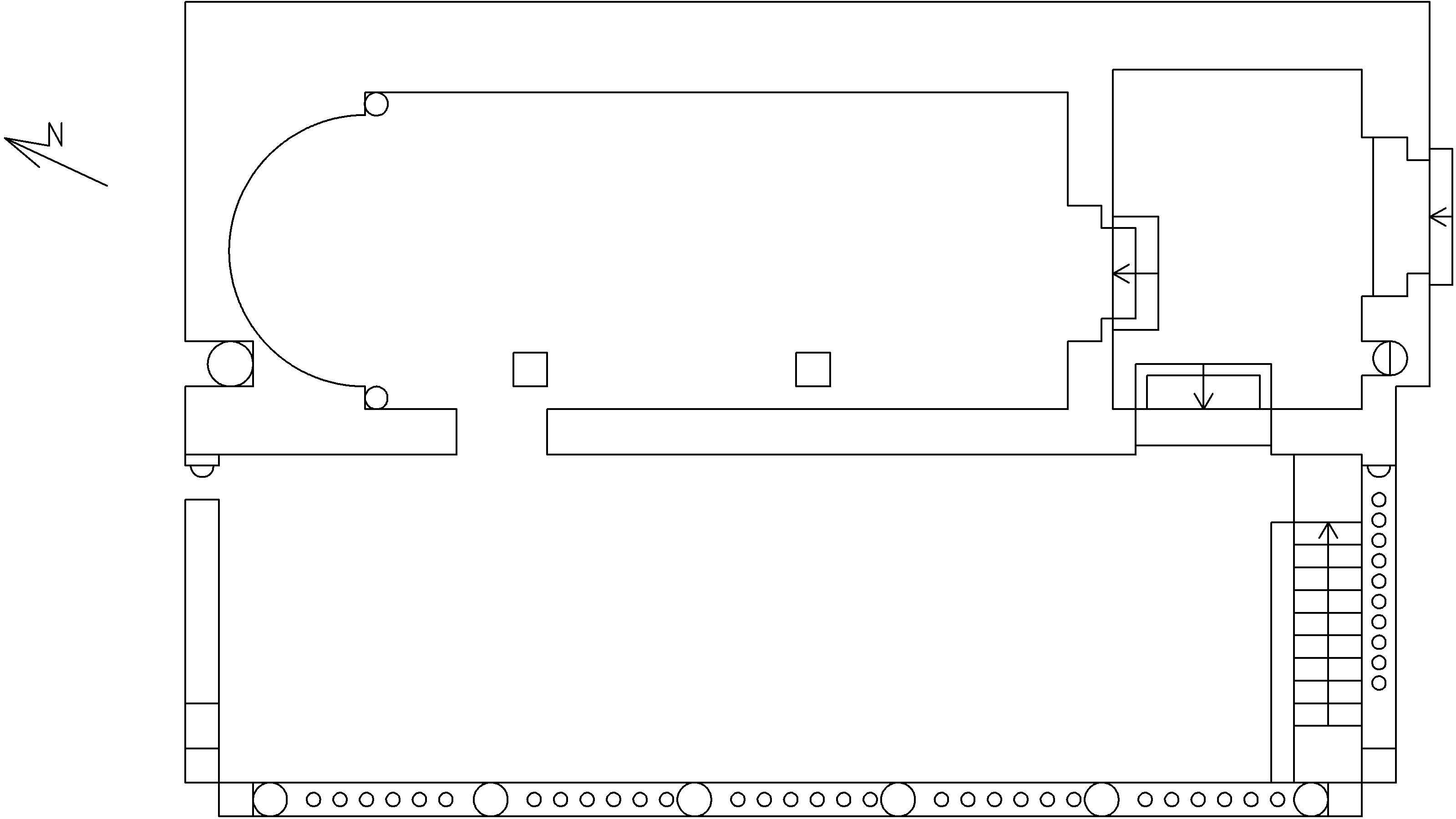 Plan of Capella dell' Incoronata in Palermo